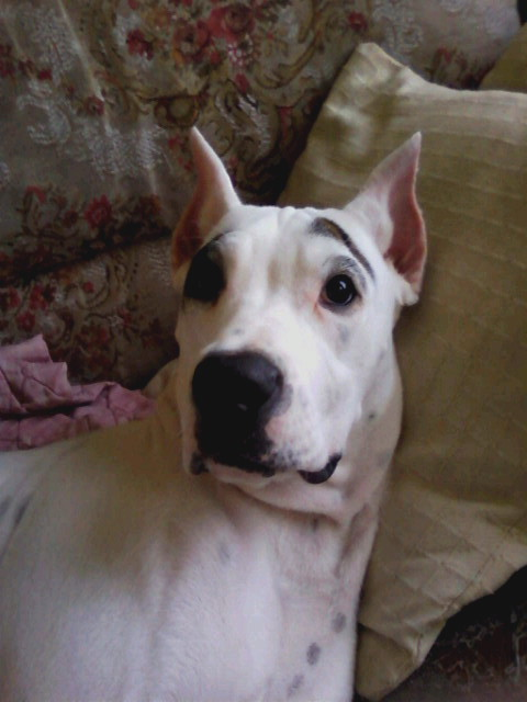 Dogo/Bull Terrier Guatemalteco: Owner Oscar E. Lorenzana Gallusser